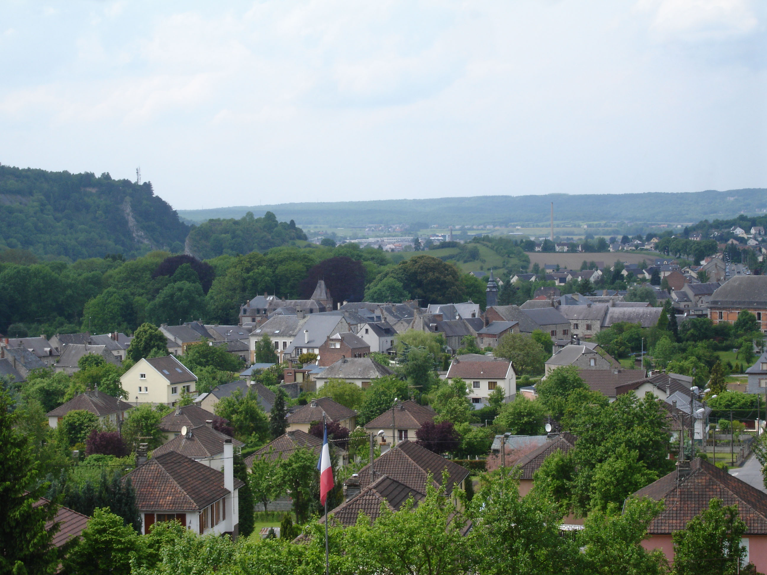 The center of the village seen from the cemetery.